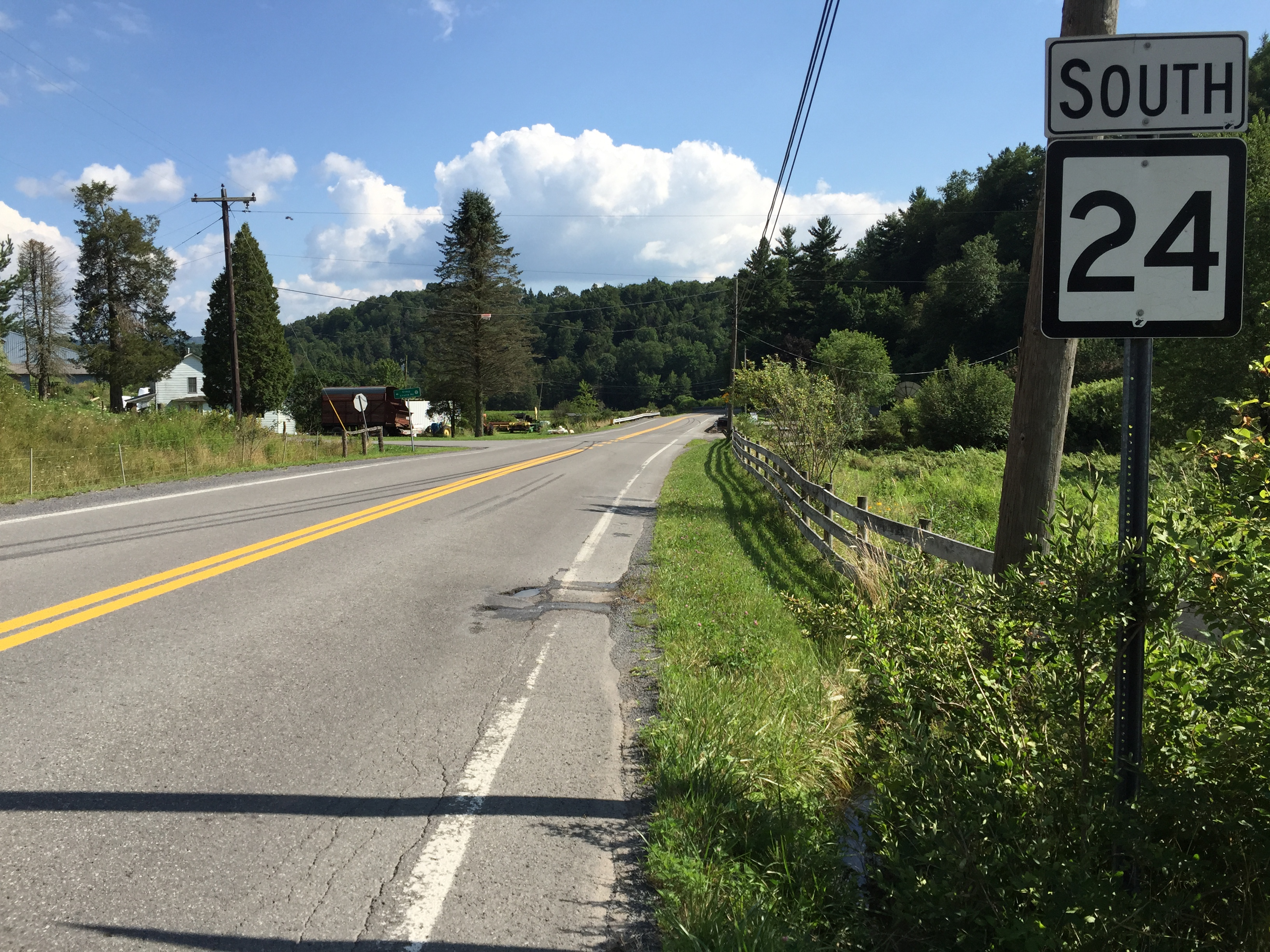 View south along West Virginia State Route 24 (Maple Spring Highway) at Orphan Home Road (Preston County Route 24/1) in Eglon, Preston County, West Virginia